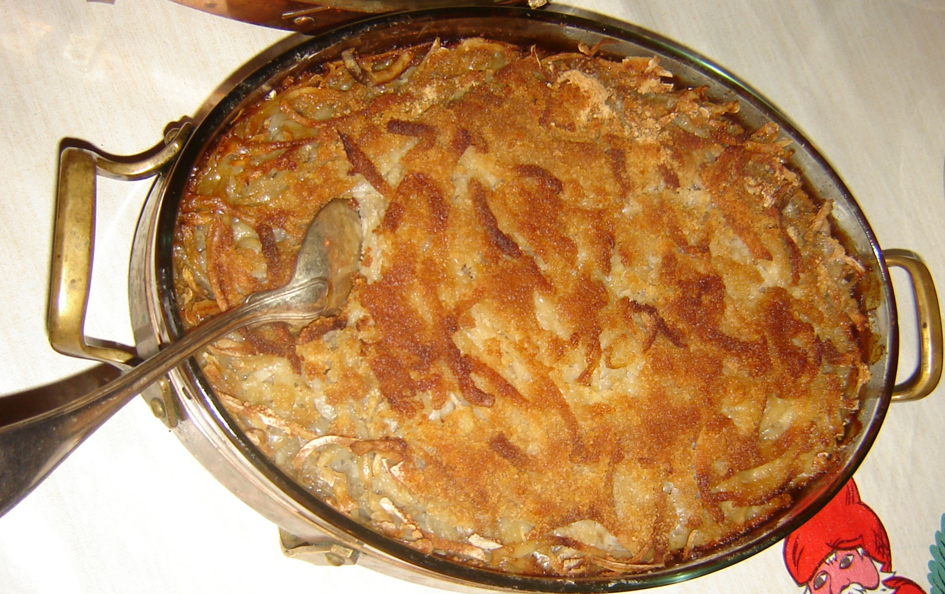 Janssons Frestelse. Photographer:Anders Jonsson